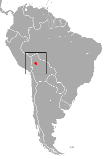 Rio Beni Titi (Callicebus modestus) range